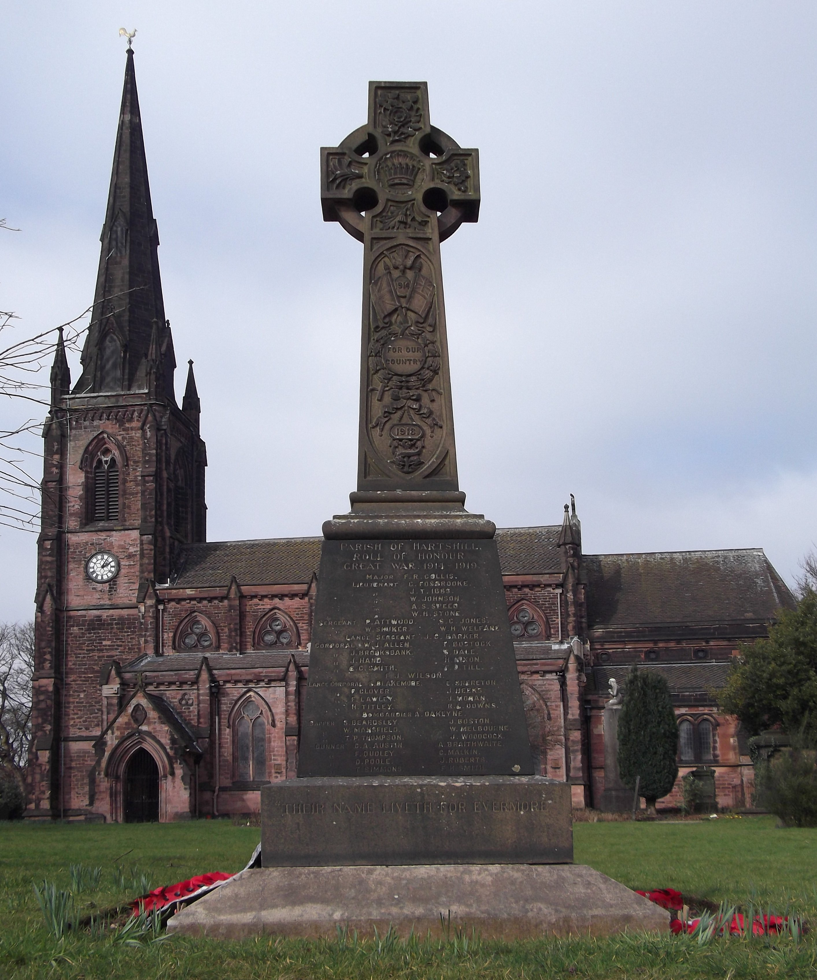 Hartshill War Memorial in the grounds of Holy Trinity Churchyard, Stoke-on-Trent Staffordshire